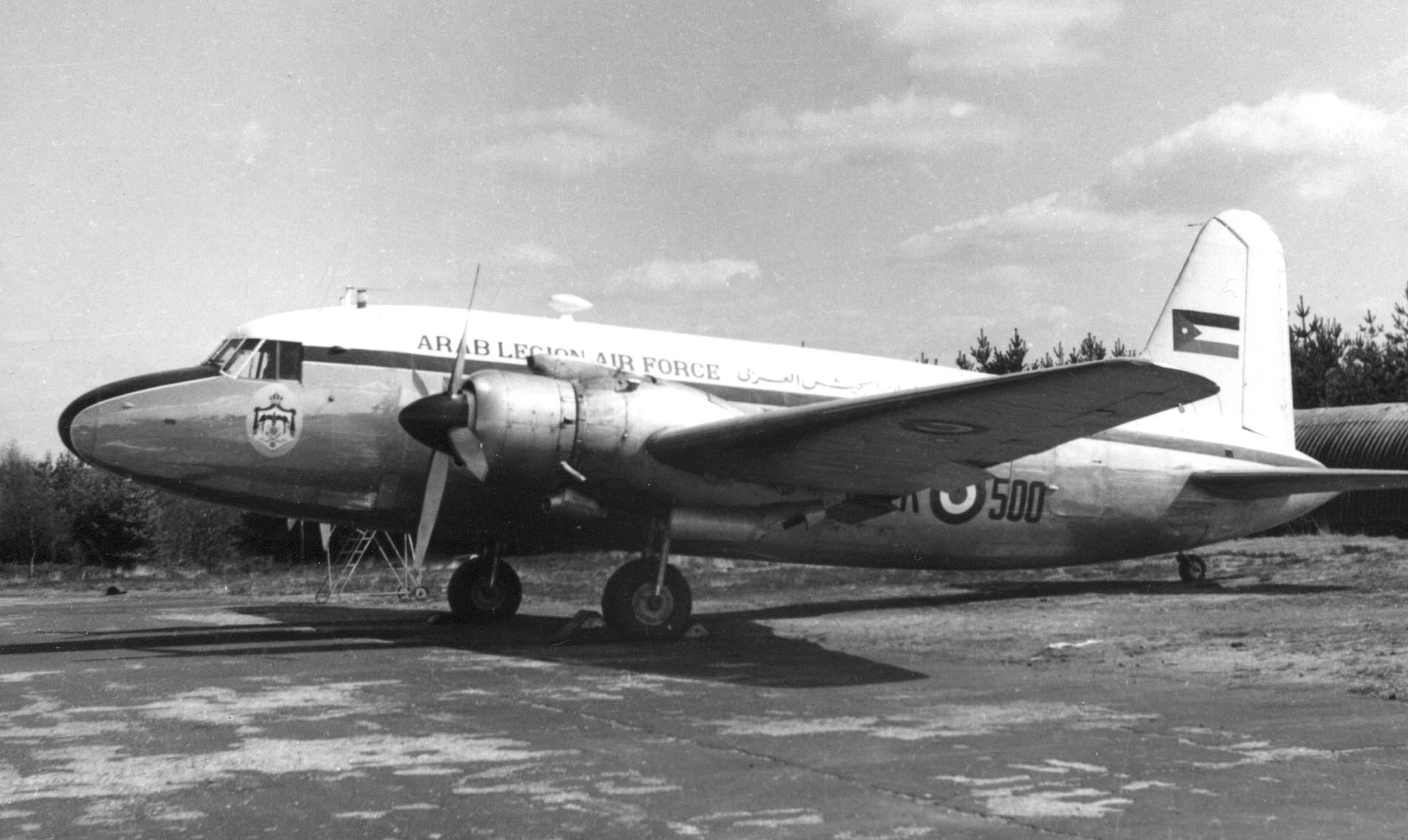 Vickers Viking 1B VK500 of the Arab Legion Air Force at Blackbushe airport, Hants, ex BEA.